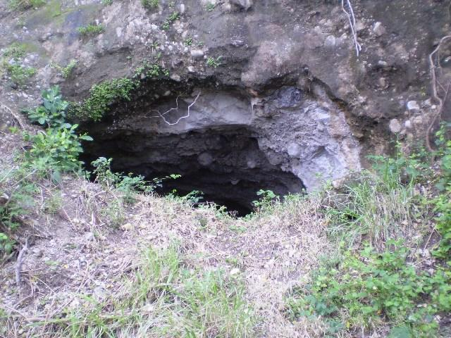 Taken by Wes Cameron, October 2007.